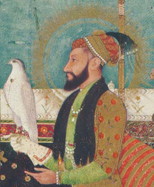 Aurangzeb holds court, as painted by (perhaps) Bichitr; Shaistah Khan stands behind Prince Muhammad Azam